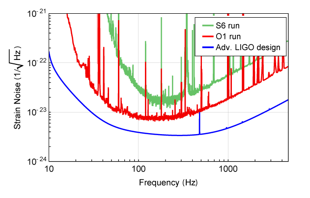 The plot shows the strain sensitivity during the first observation run (O1) of the Advanced LIGO detectors and during the last science run (S6) of the initial LIGO detectors. The O1 strain noise curve is shown for H1 (dark red) and L1 (light red); the two detectors have similar performance. The Advanced LIGO design sensitivity is shown to highlight the discovery potential in the coming years.